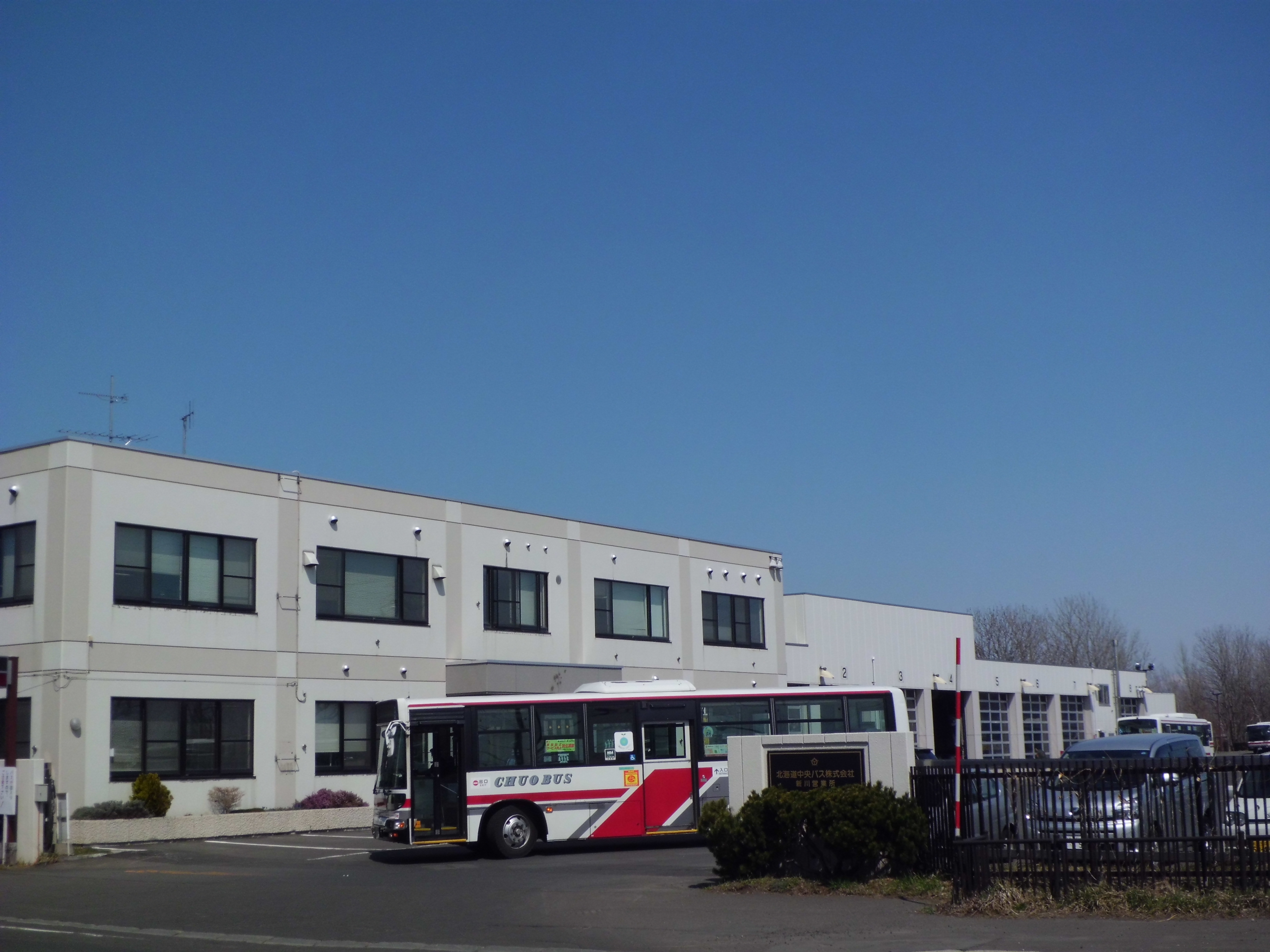 Hokkaido Chuo Bus Shinkawa Office